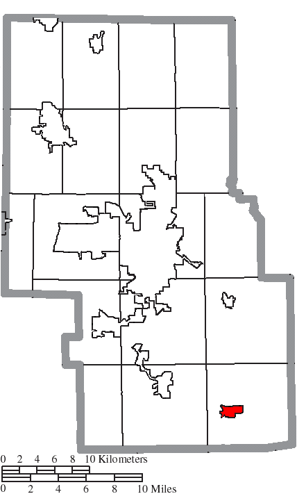 Map of the municipal and township boundaries of Richland County, Ohio, United States, as of the 2000 census, with the location of the village of Butler highlighted. Township borders are shown only in unincorporated areas in order to differentiate incorporated and unincorporated areas more clearly.